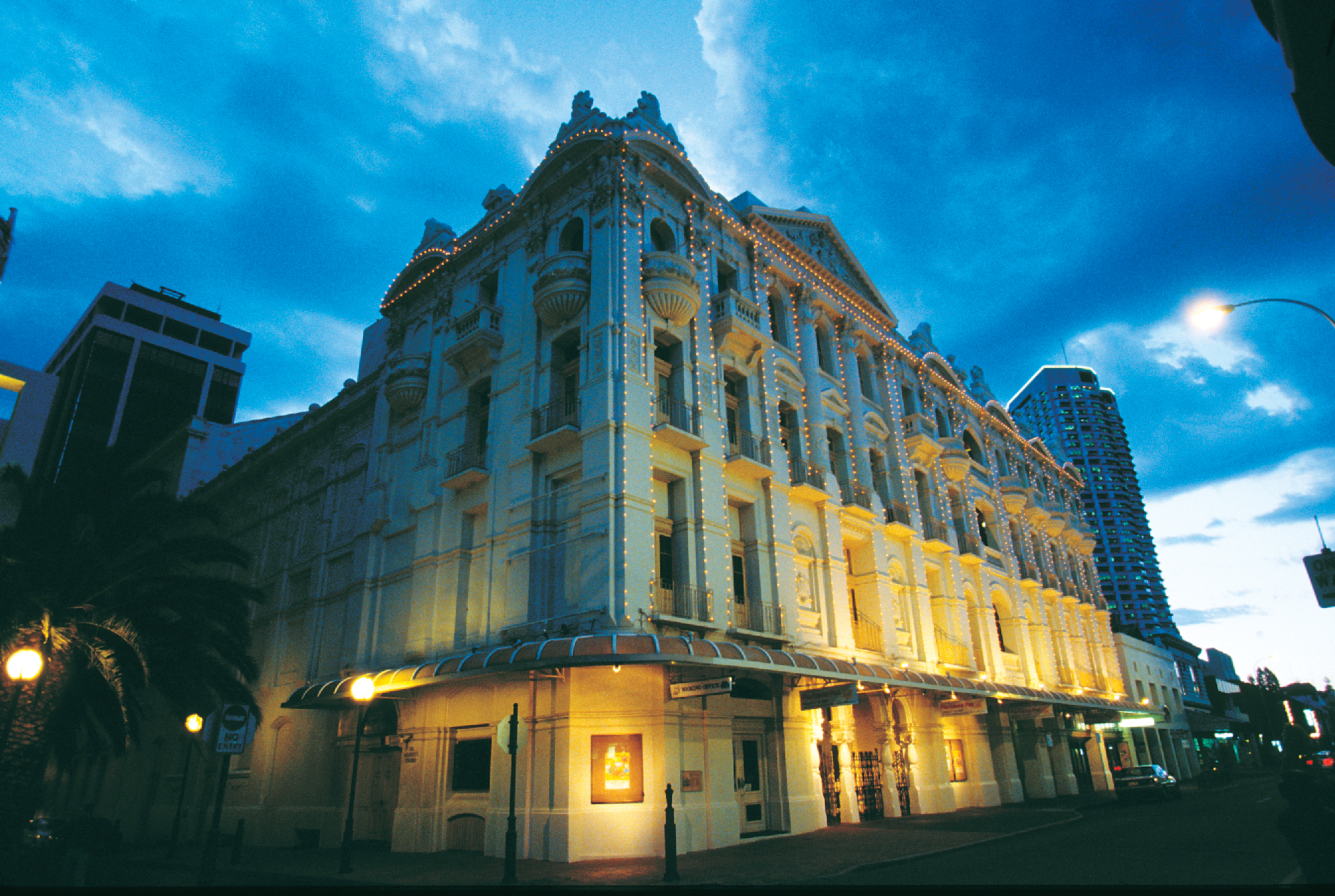 His Majesty's Theatre Exterior